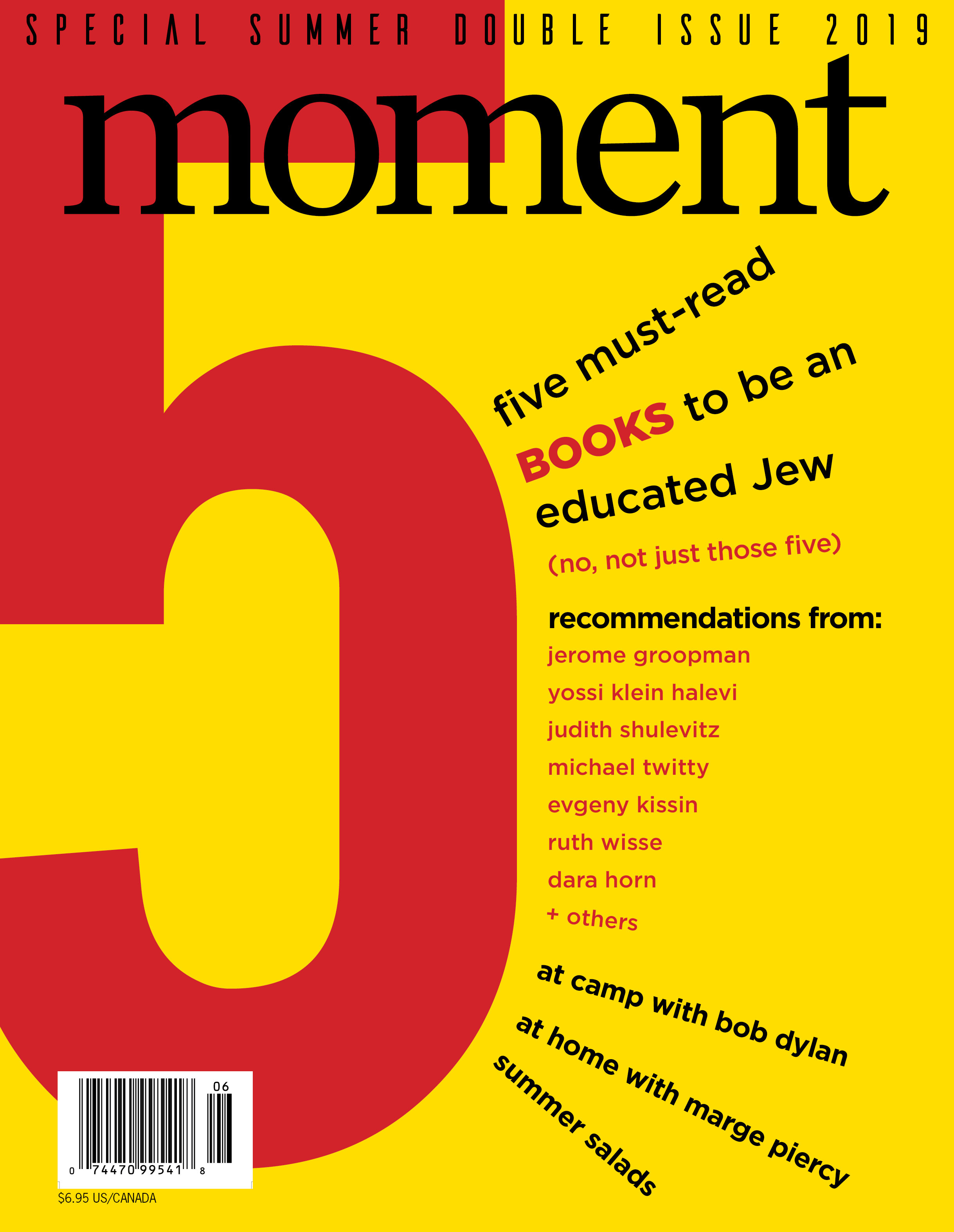 Low-res cover of Moment Magazine Summer 2019 issue.